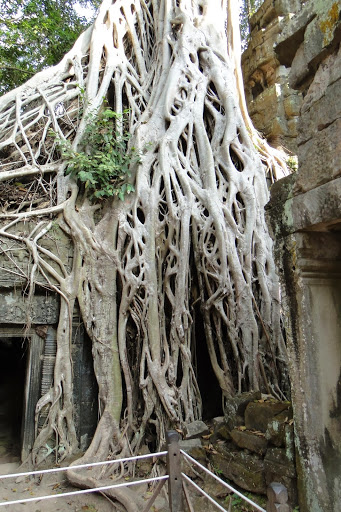 Ta Prohm-1